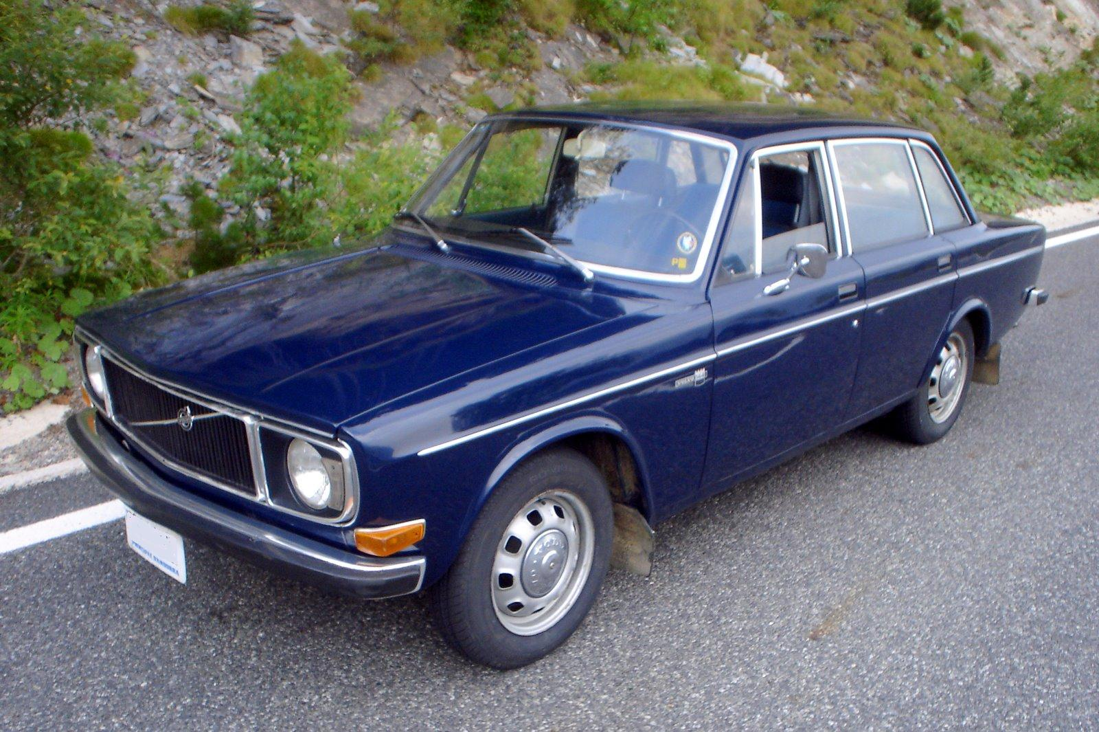 1972 Volvo 144 De Luxe